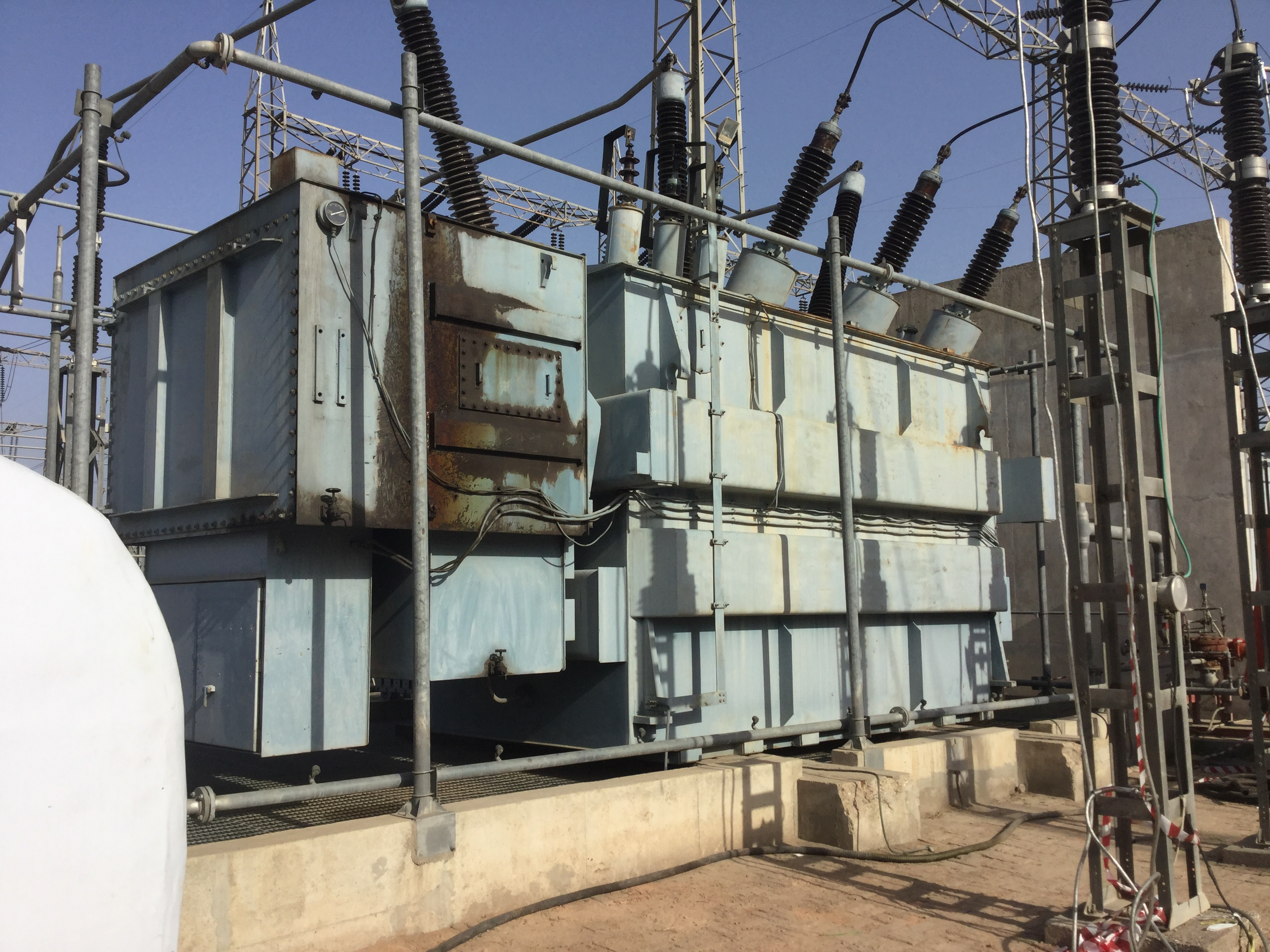 Kot Addu Power Complex, Kot Addu, Pakistan; 100 MVA Transformer KAPCO